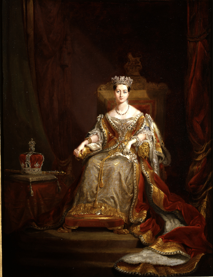 Queen Victoria in Coronation robes 1838